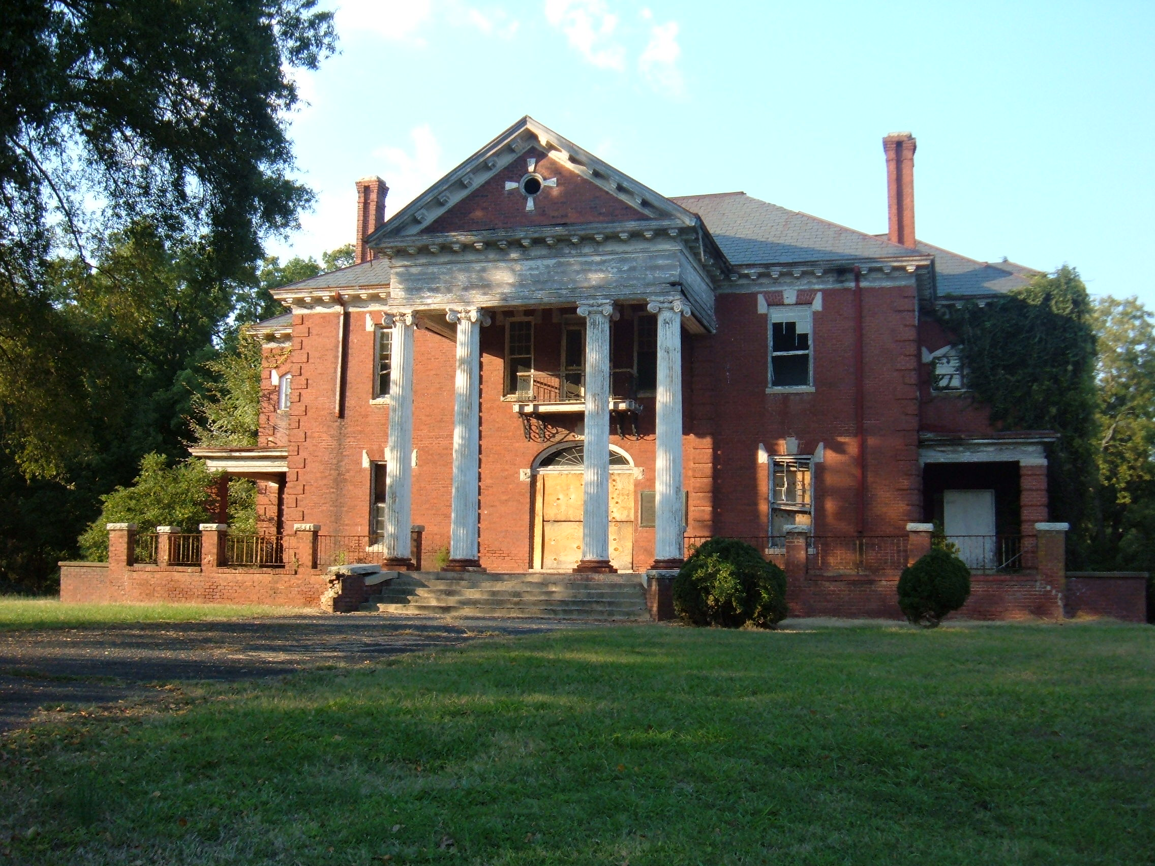 Cannon House @ Stonewall Jackson Training School, Concord, NC